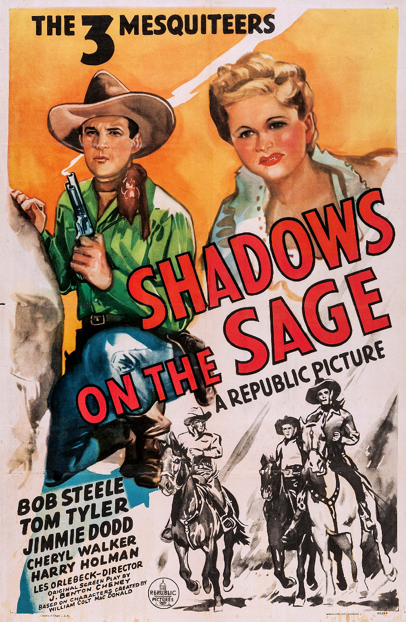 Poster for the 1942 film Shadows on the Sage. The item has no copyright markings on it. At bottom is Country of origin USA, Morgan Litho Co., Cleveland, O. and a number which probably refers to the print job for the poster.